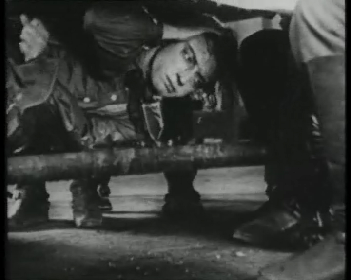 Scene from the movie The General. 1926.